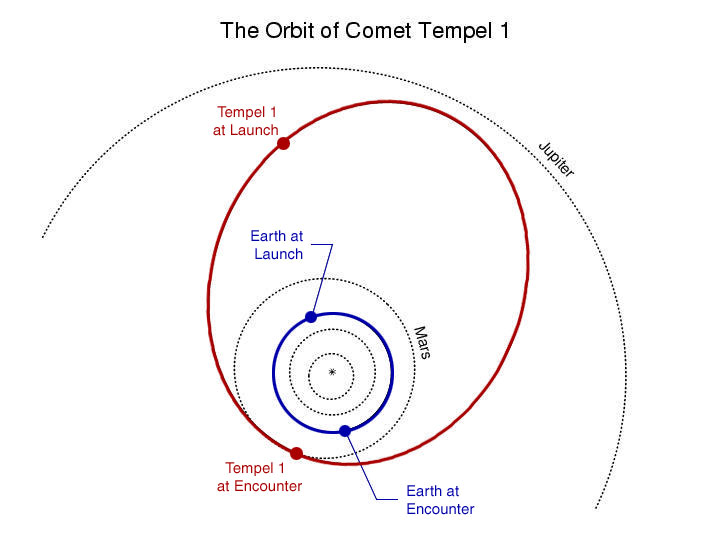 Looking down upon the Solar System from above (plane view), this image shows the orbital path of Earth, Mars, Comet Tempel 1 and Jupiter. The positions of the Earth at launch and encounter are marked with a solid circle as is the comet at encounter.